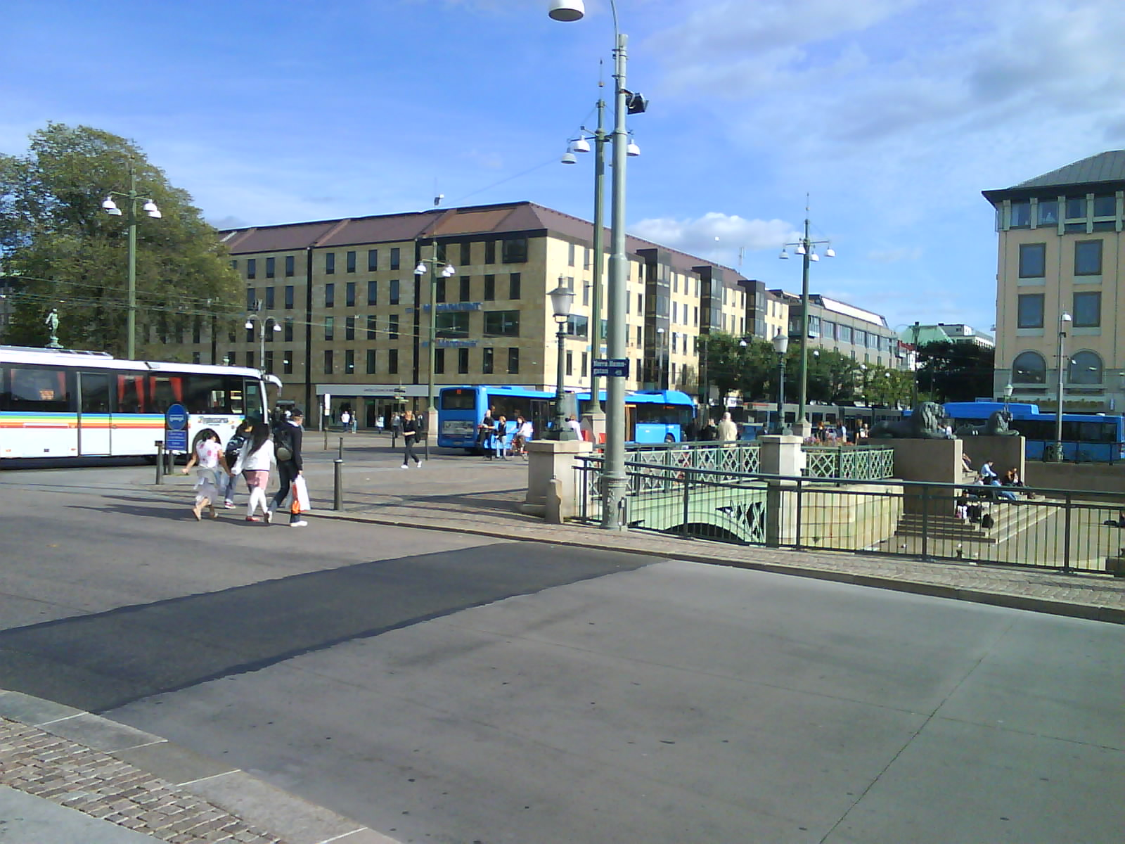 Brunnsparken, Göteborg, Sweden